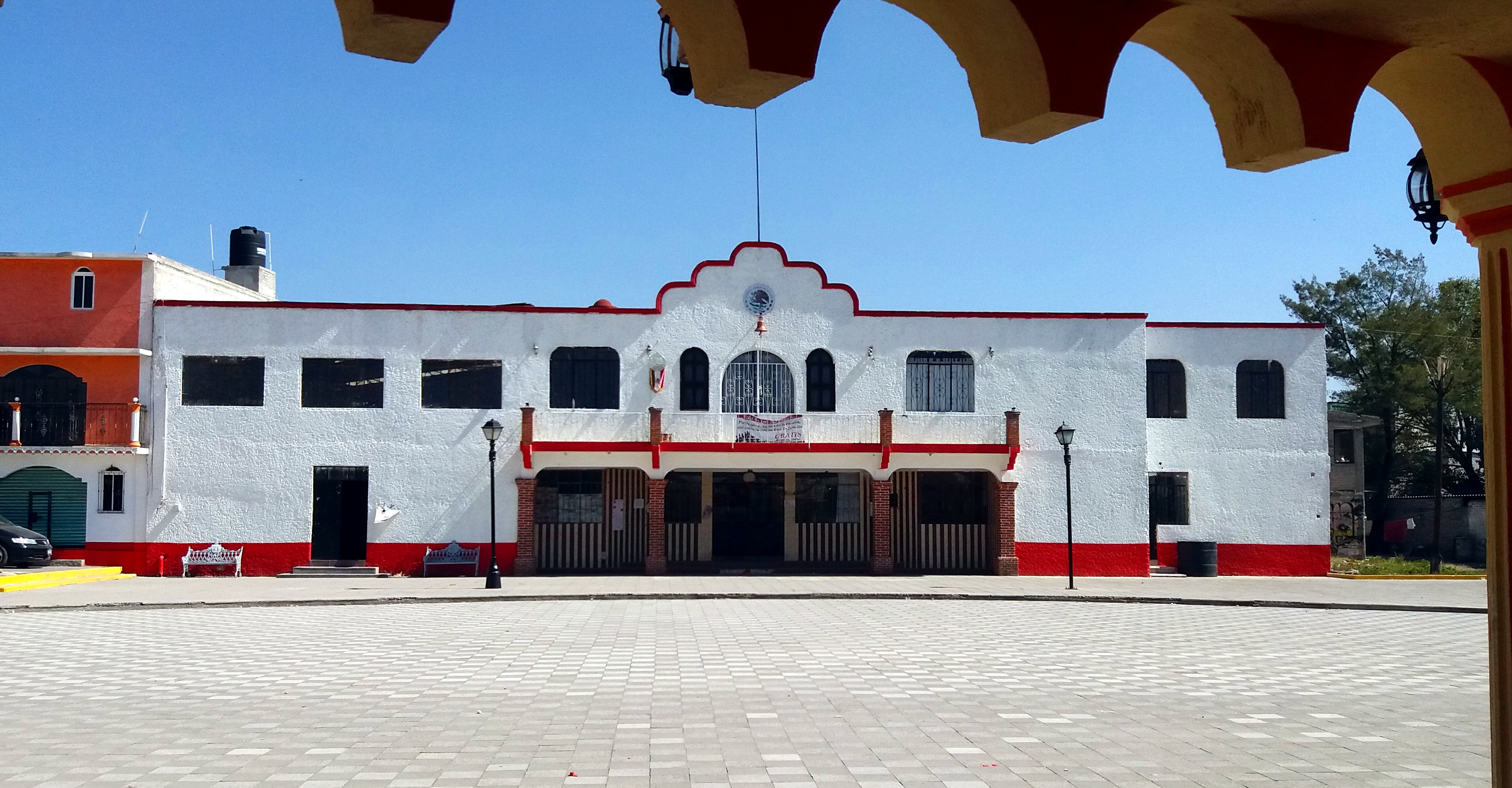 Municipality in Tocuila (2017)